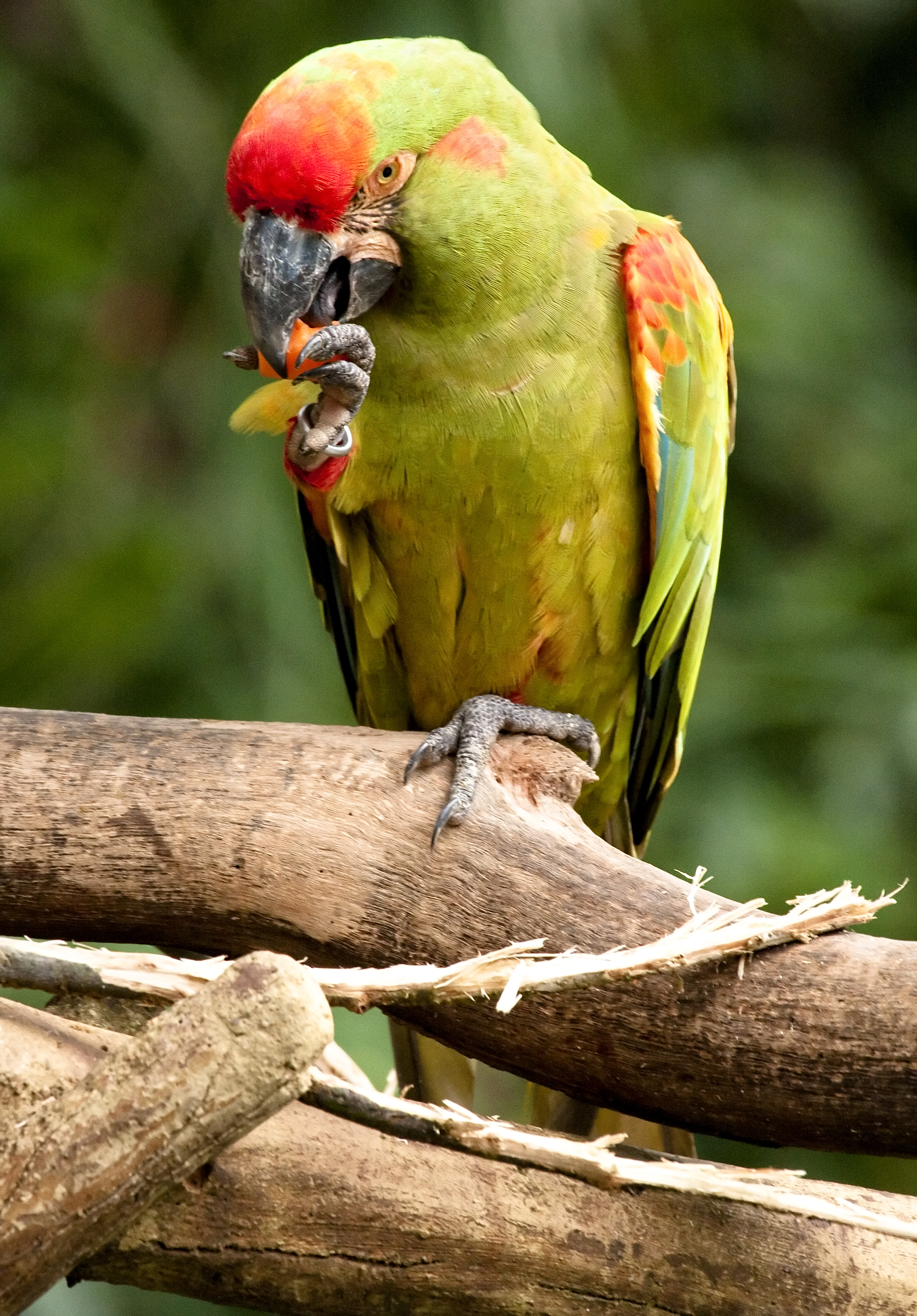 A Red-fronted Macaw at Jurong Bird Park. The Red-fronted Macaw, '(Ara rubrogenys), is a parrot endemic to a small semi-desert mountainous area of Bolivia. It is highly endangered, and there may only be 150 or so birds left in the wild; it has been successfully bred in captivity, and is available, if not common, as a pet. The Red-fronted Macaw is 55–60 cm (21.5–23.5 in.) long. It is mostly green, and has a red forehead and a red patch over the ears. It has an area of pinkish skin around the eyes extending to the beak. It has red at the bend of wings and blue primary wing feathers